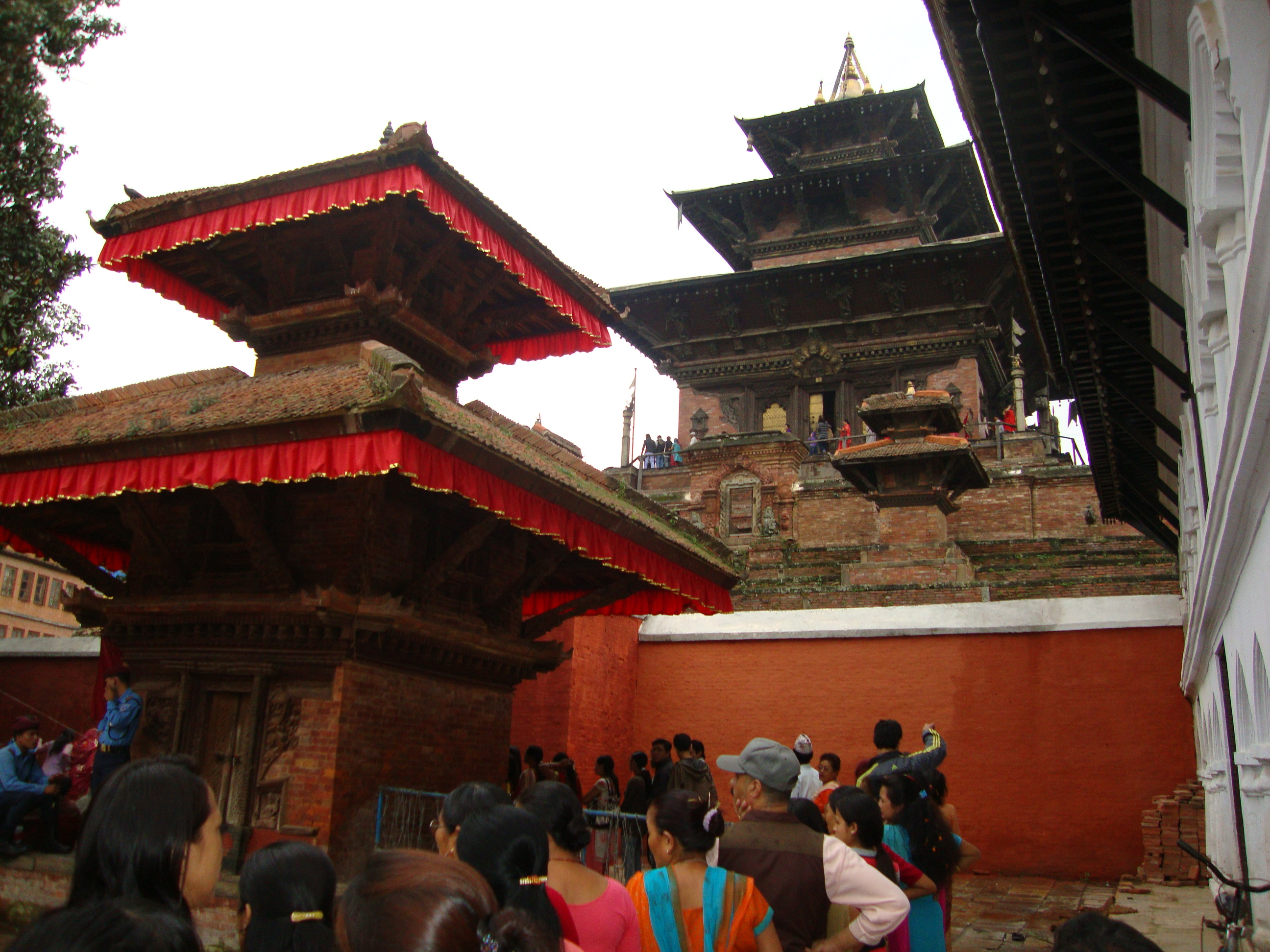 people standing in line to visit taleju bhawani